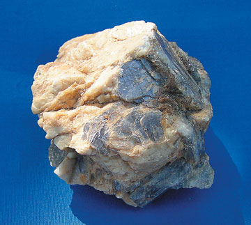 Corundum